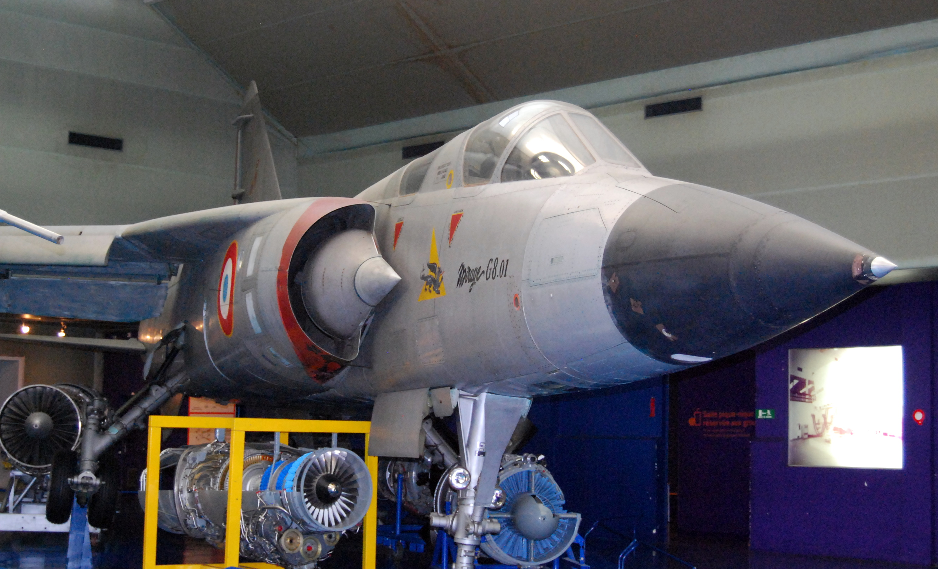 Photo ref; DSC1195-2012